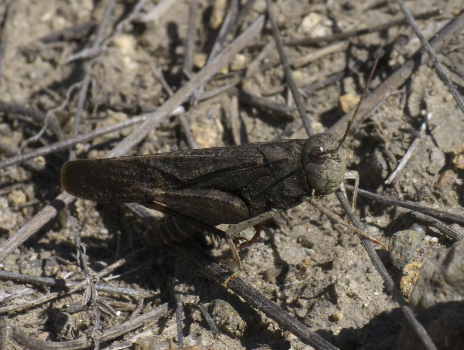 Arphia pseudonietana, Red-winged Grasshopper, Dark red wing, ID Confidence: 92